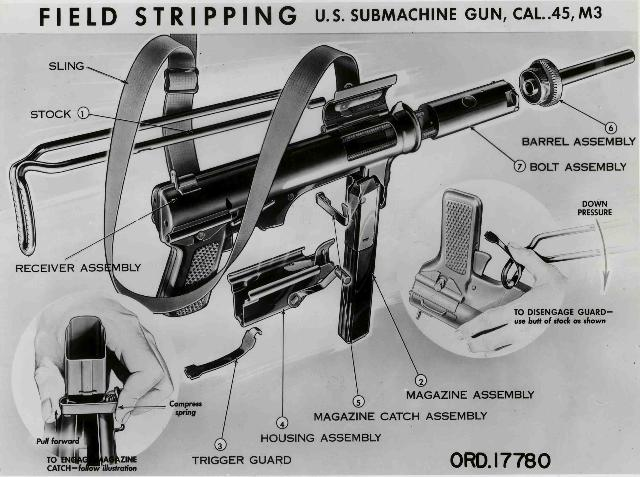 Field Stripping of M3 Grease Gun